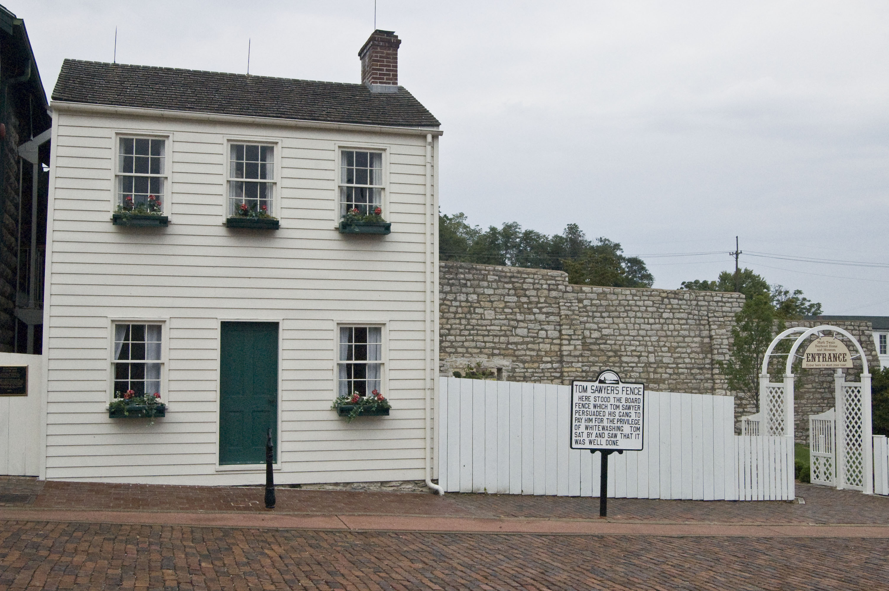 Mark Twain's boyhood home in Hannibal, Missouri.